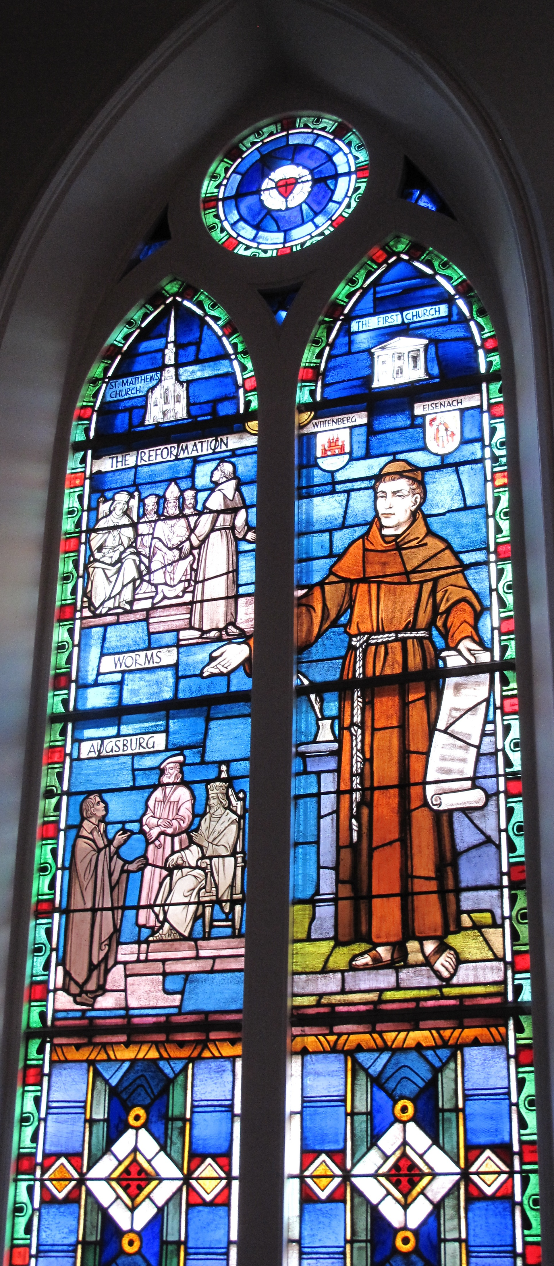 The Reformation stained glass window at St. Matthew's German Evangelical Lutheran Church in Charleston, SC. Franz Mayer & Co. of Munich, Germany represented by the studios of George L. Payne of Patterson, New Jersey 1966. Non-copyright work.